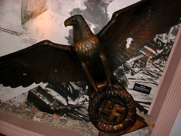 Bronze eagle from the german new Reichs Chancellery that often stood behind Hitler, at the Imperial War Museum London.